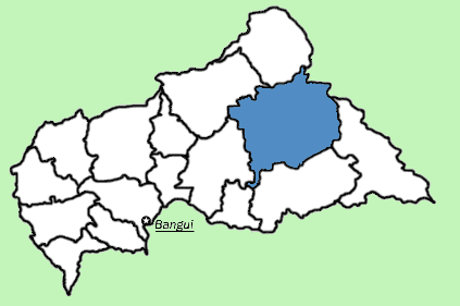 Map showing location of Haute-Kotto Prefecture in Central African Republic